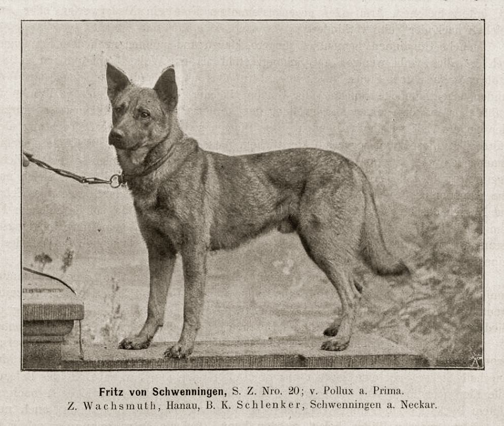 Fritz von Schwenningen German Shepherd Dog